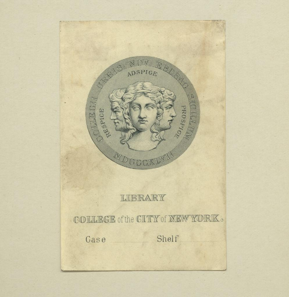 Pictorial Bookplates. Subject: Seals; Labels. Subject - Corporate Name: College of the City of New York Library.